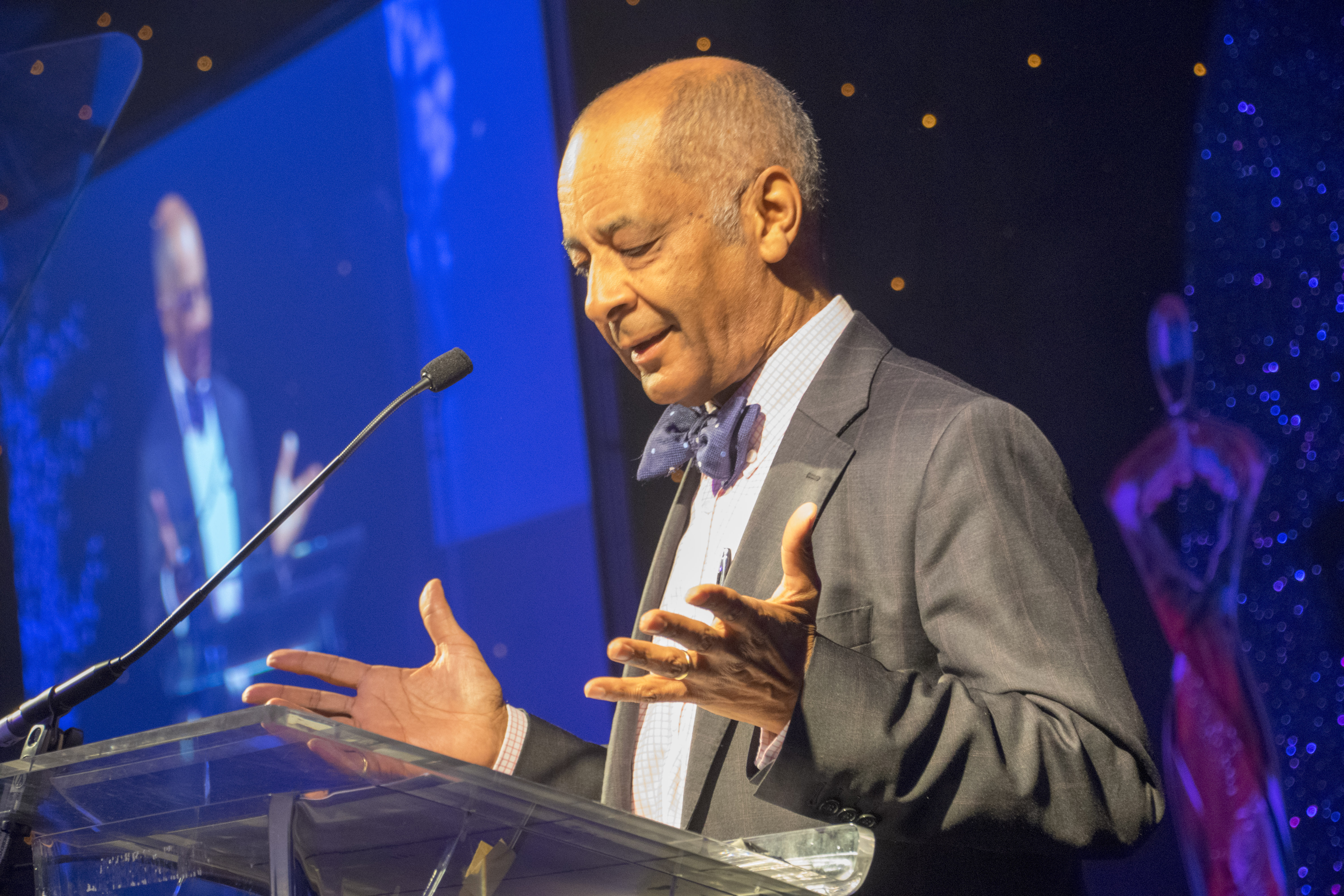 Wintrade Week Women in Trade and Industry Gala Awards & Dinner at Park Plaza Hotel Westminster Bridge London Key Note Address : Sir Ken Olisa Lord Lieutenant Greater London